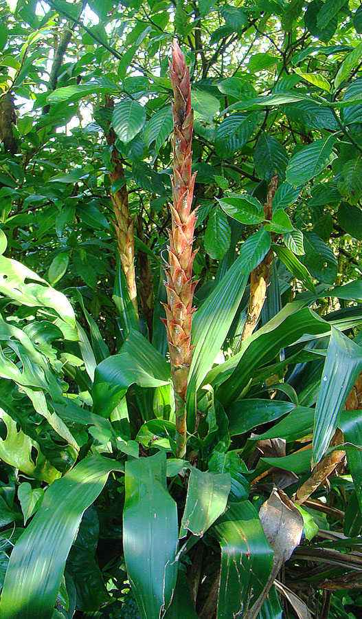 A Mesoamerican Bromeliad, photo from Volcan Mombacho, Nicaragua. In context at